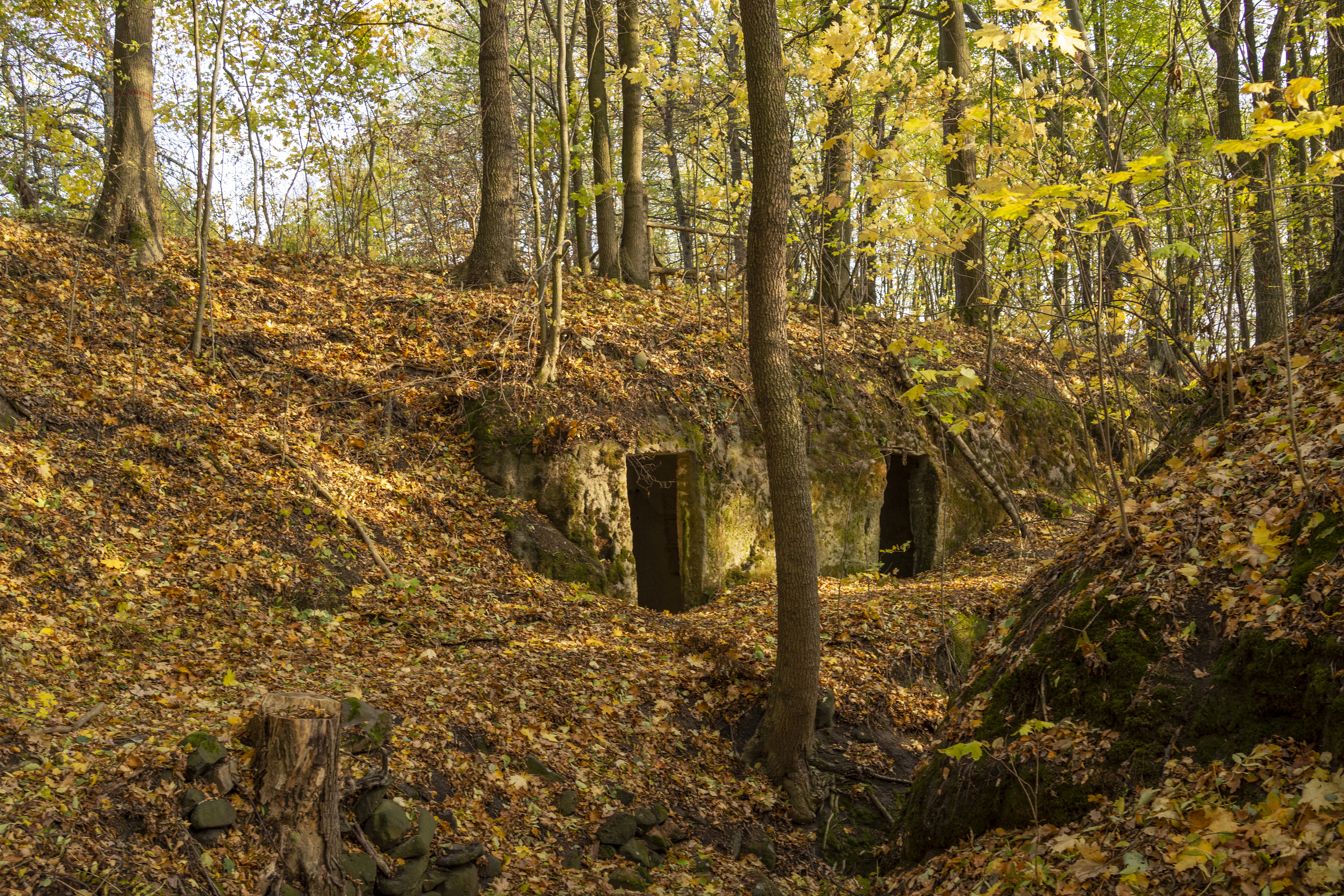 Natural monument Kanon potoka Kolne (Kolne stream canyon), Czech Republic. Man made caves.